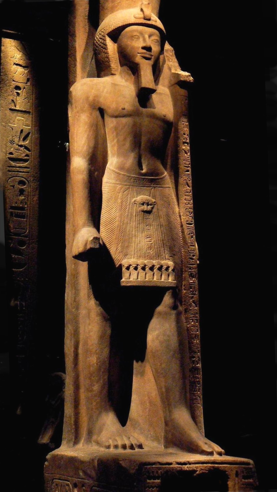 Statue of king Seti II from the Egyptian Museum of Turin, Italy.